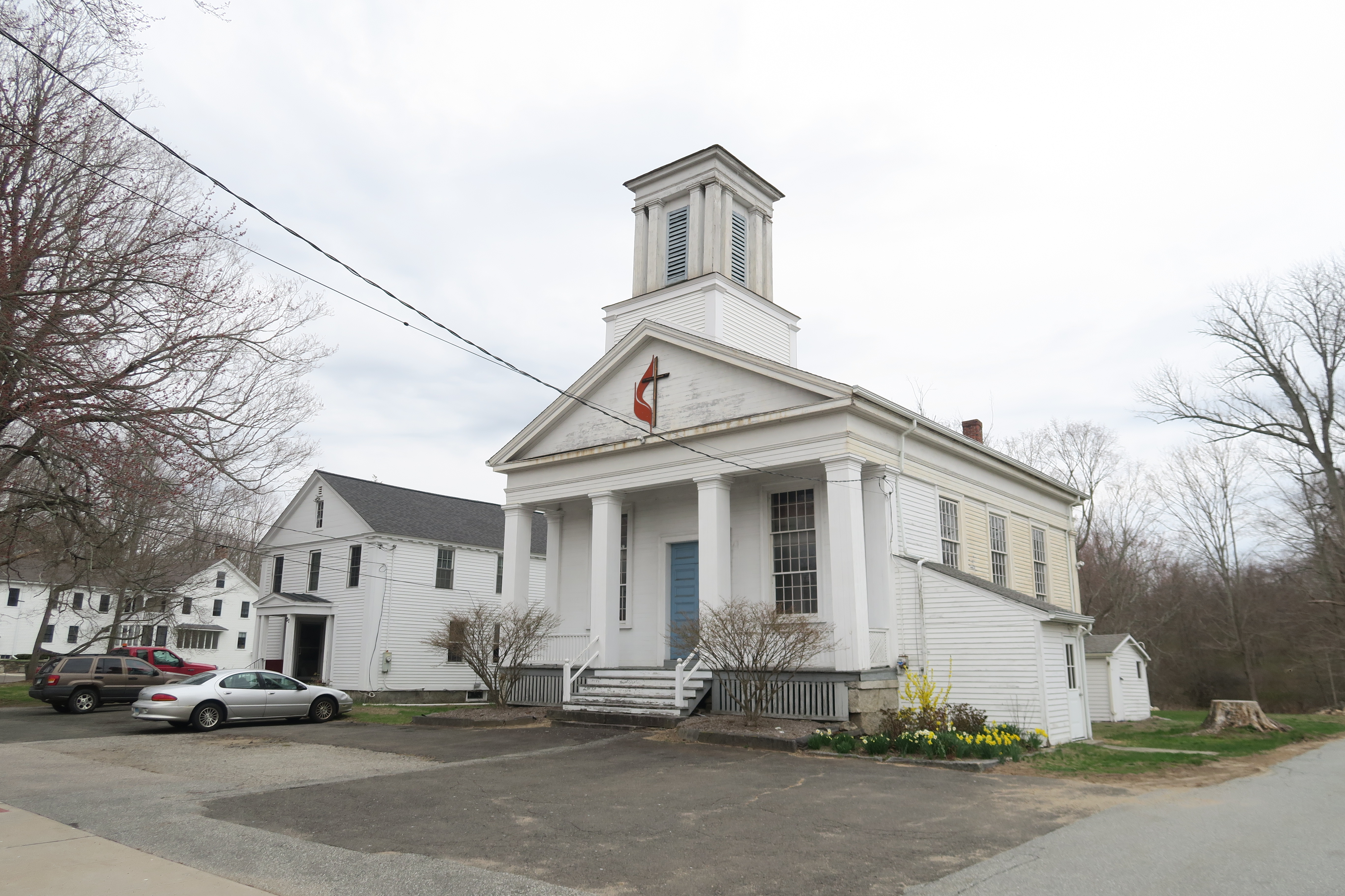 Moodus United Methodist Church, Moodus Connecticut